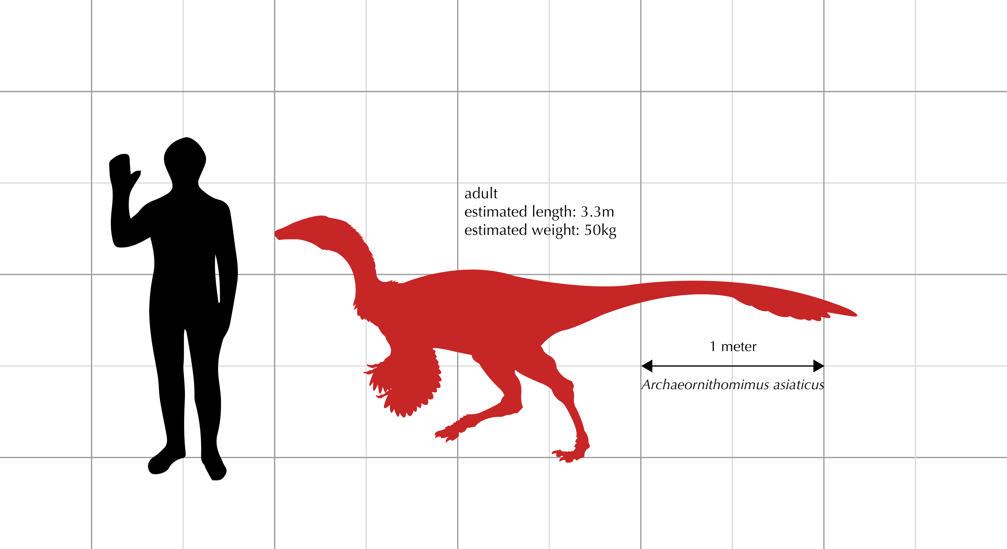 A size comparison between a human male and an Archaeornithomimus asiaticus specimen.